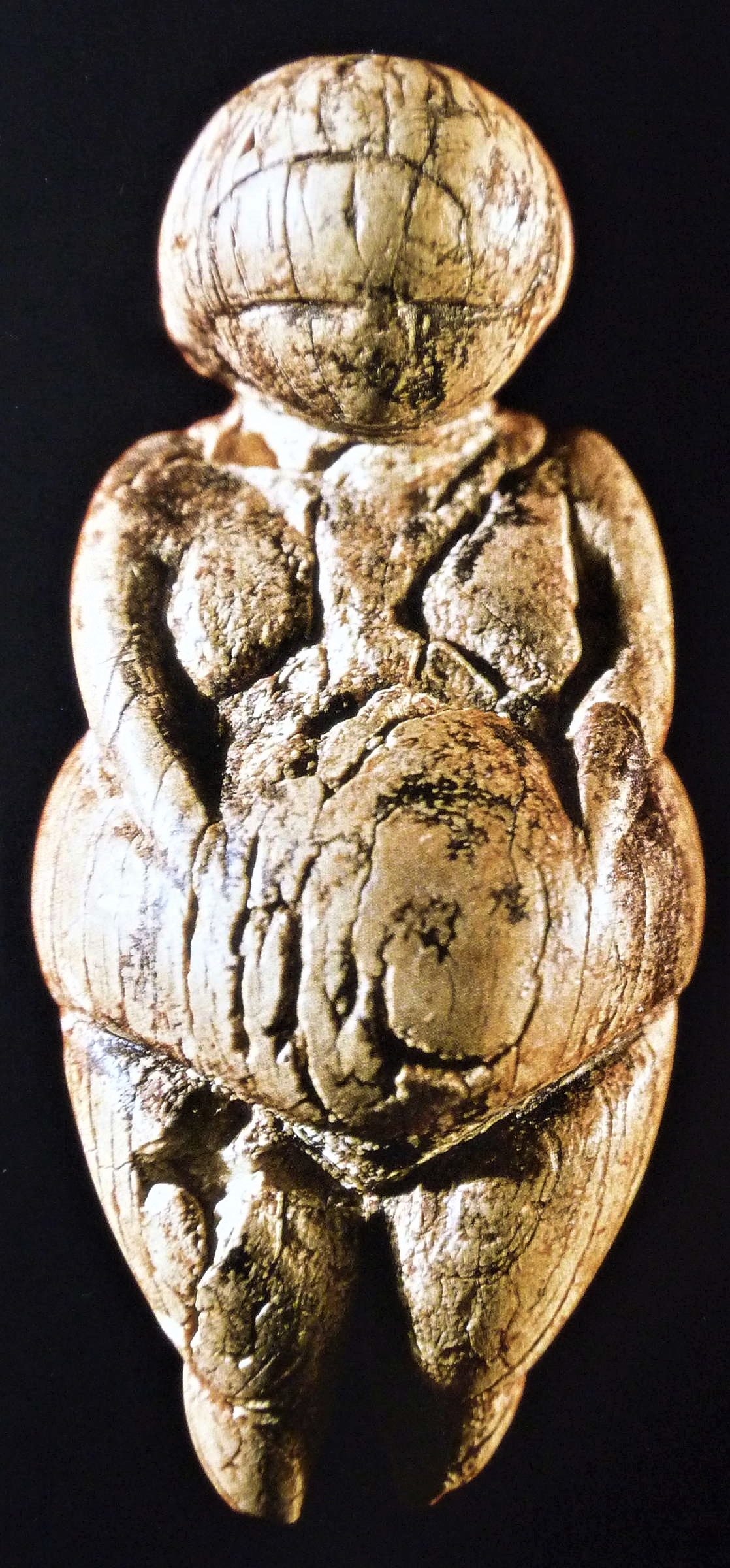 Venus Figure from Konstanki Made of mammoth tusk, Kostenki 1, layer 1 (22 000 BP)